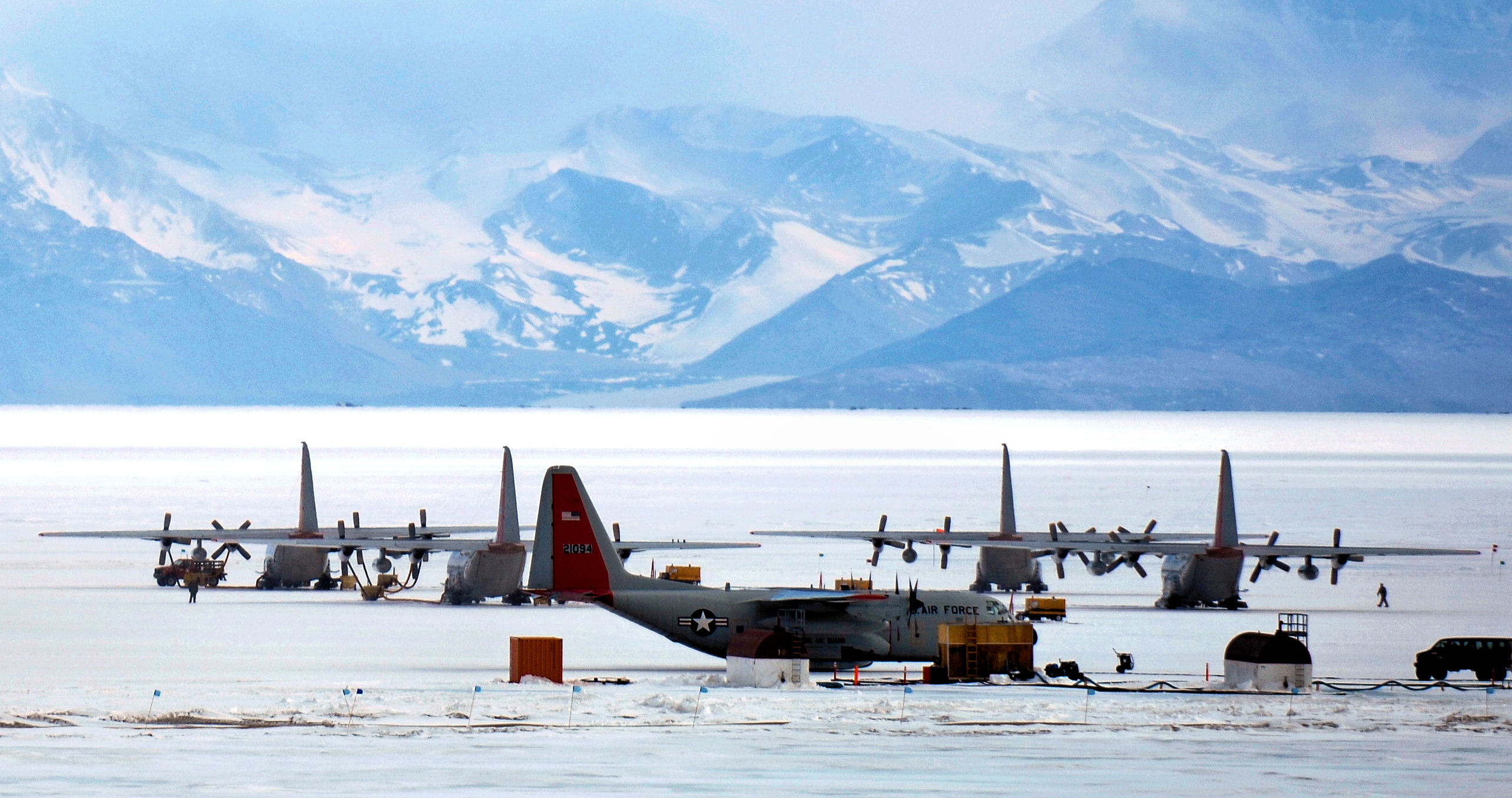 139th Airlift Squadron - Operation Deep Freeze LC-130s at McMurdo Station, Antarctica Williams Field.